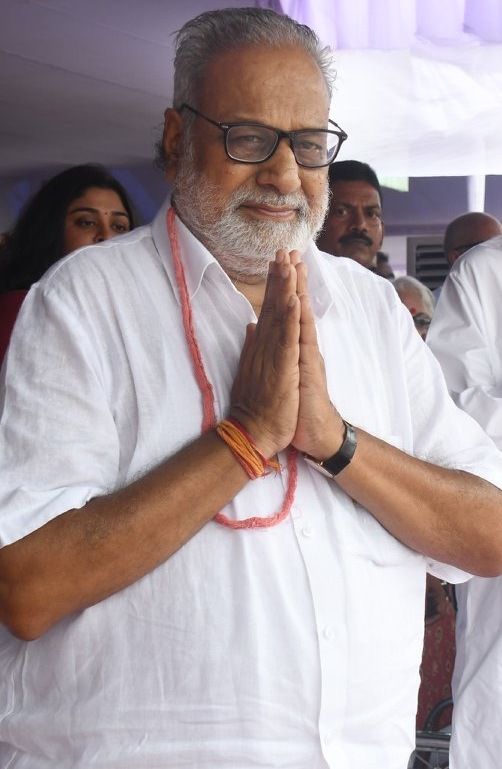 Hon'ble Governor & Chief Minister at Ratha Yatra-2018, Puri